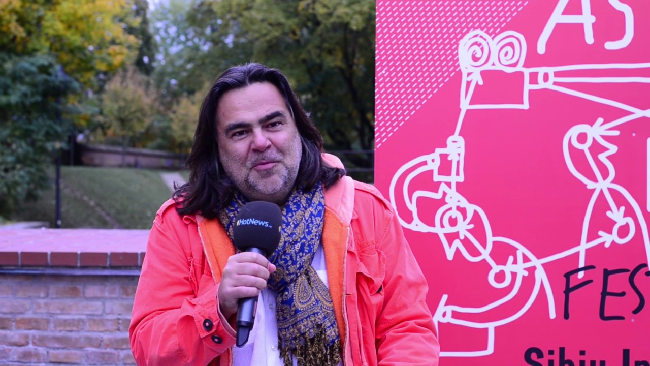 Liviu Tipuriță.